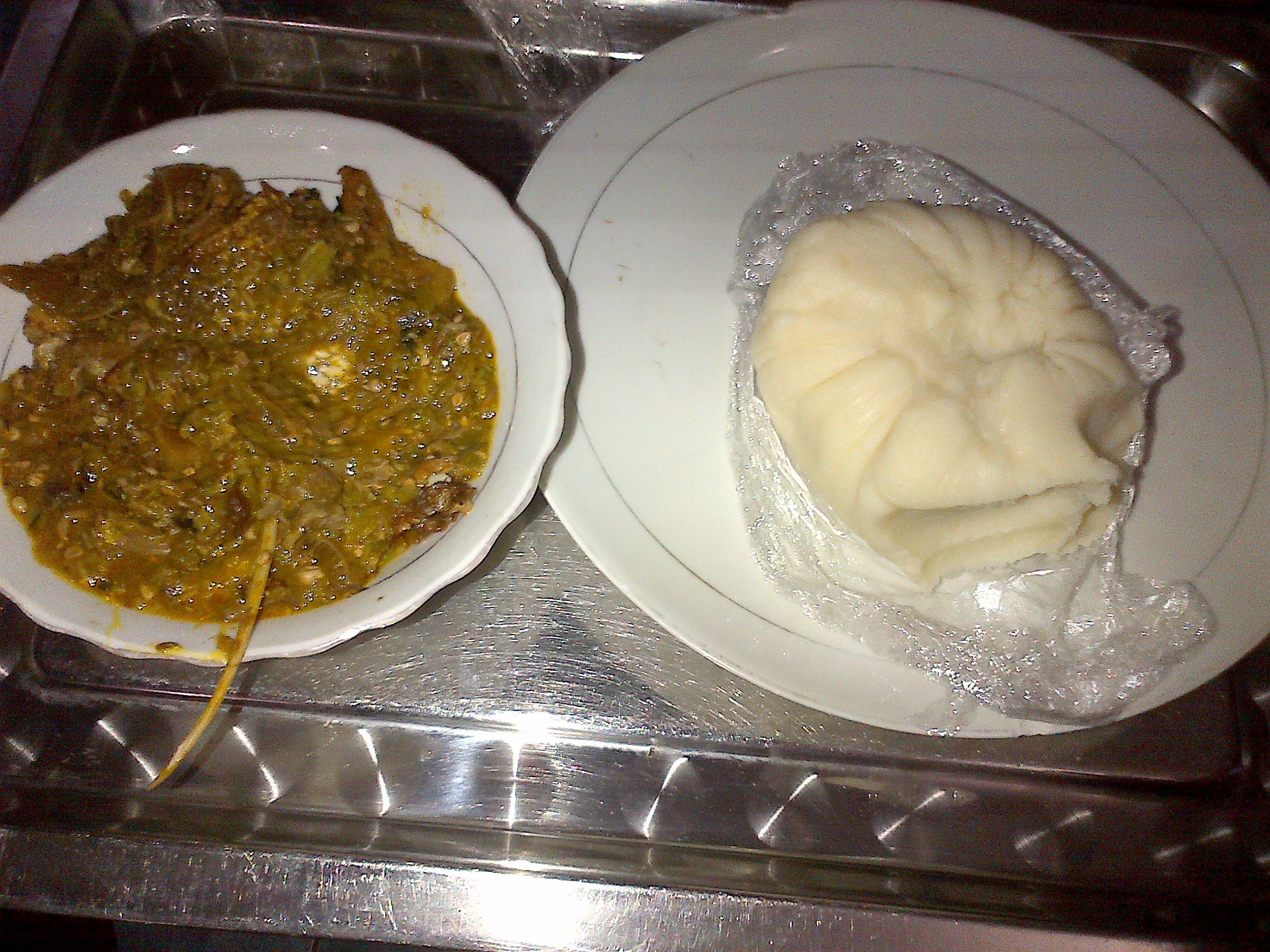 Pounded Yam and Okro Soup This is an image of food from Nigeria